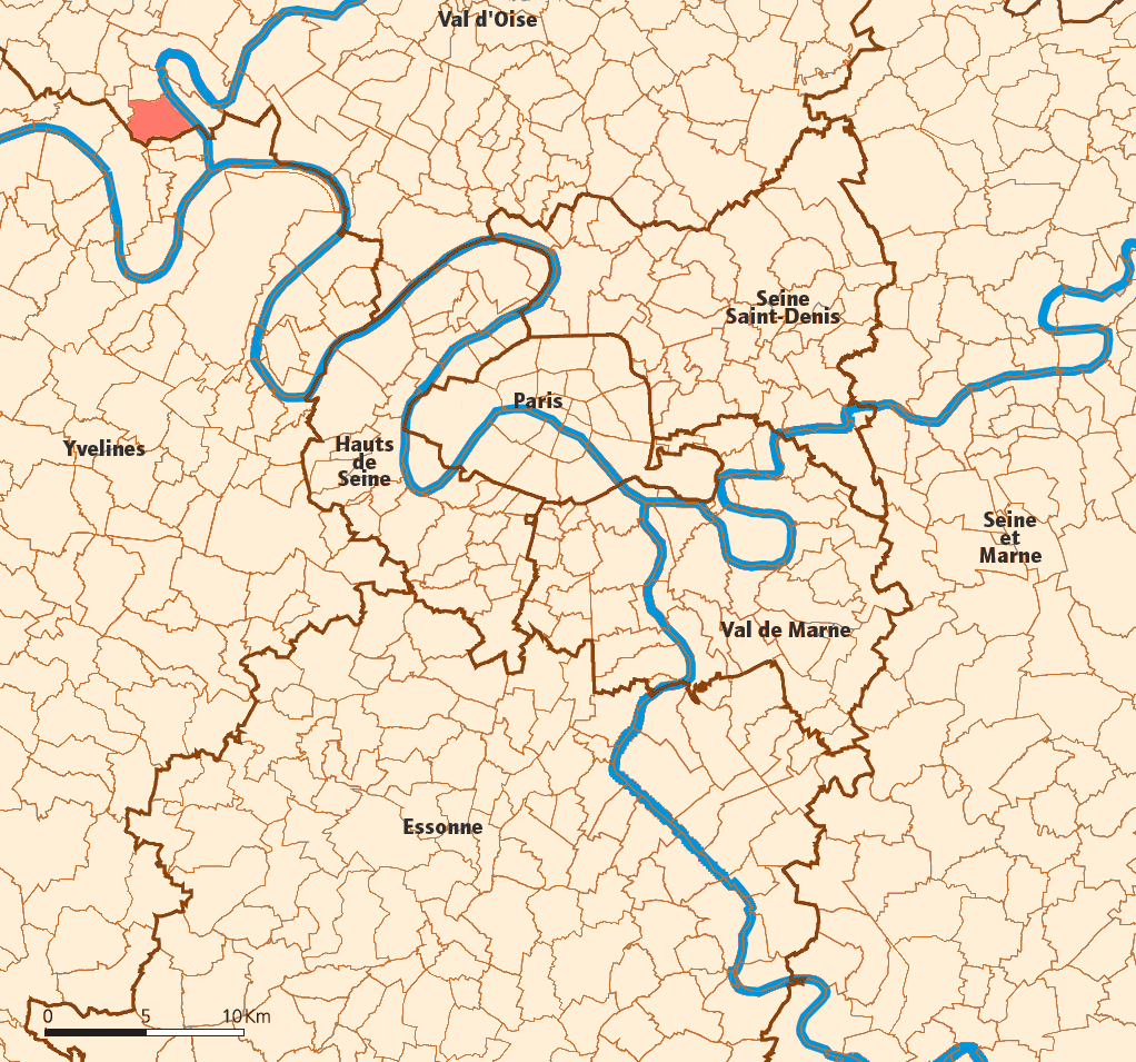 Created page myself.